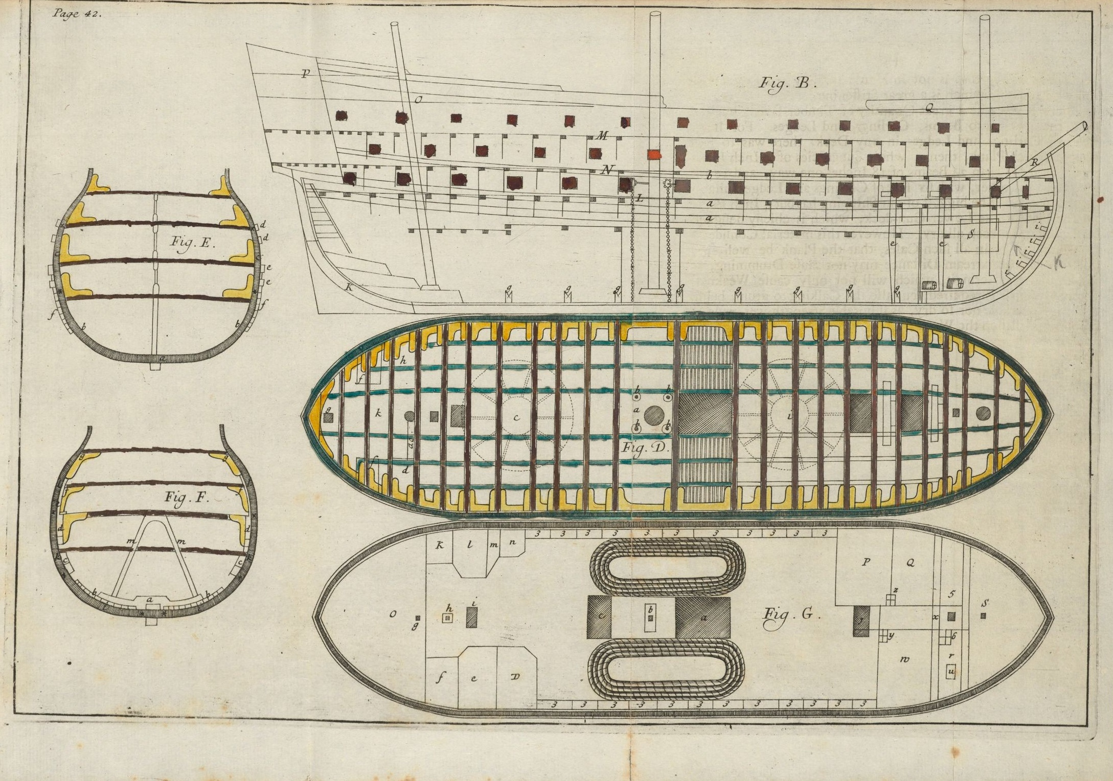 Illustration from The Ship-builders Assistant: or, some essays towards compleating the art of marine architecture … To which is annexed, an explication of the principal terms used in this art (London: 1711), by William Sutherland. *EC7 Su846 711s, Houghton Library, Harvard University